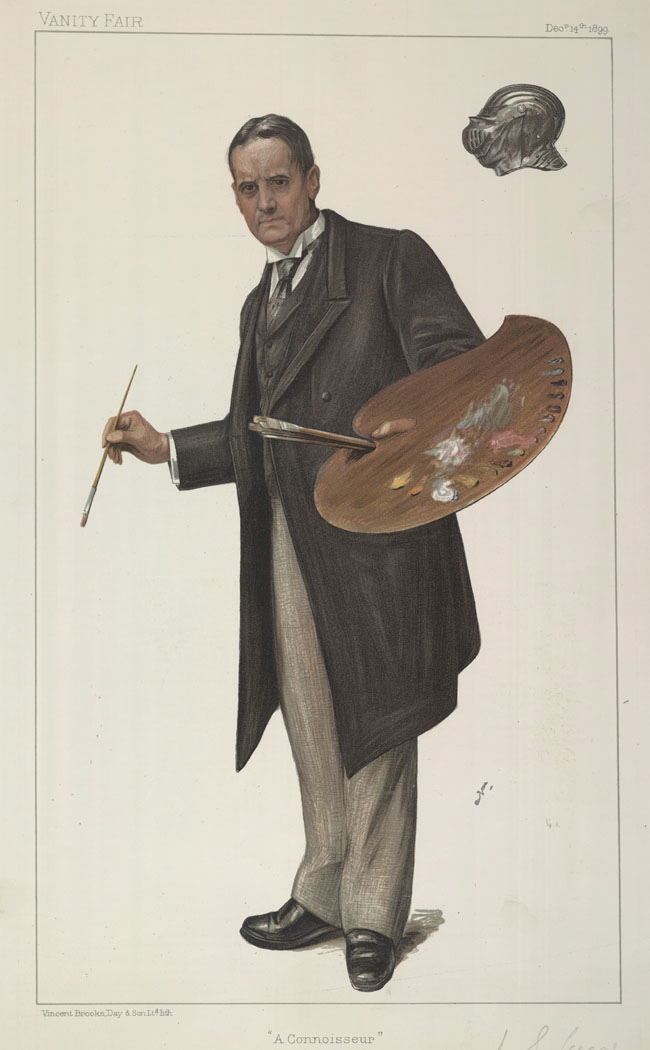 Men of the Day No. 768: Caricature of John Seymour Lucas. Caption read "A Connoisseur".